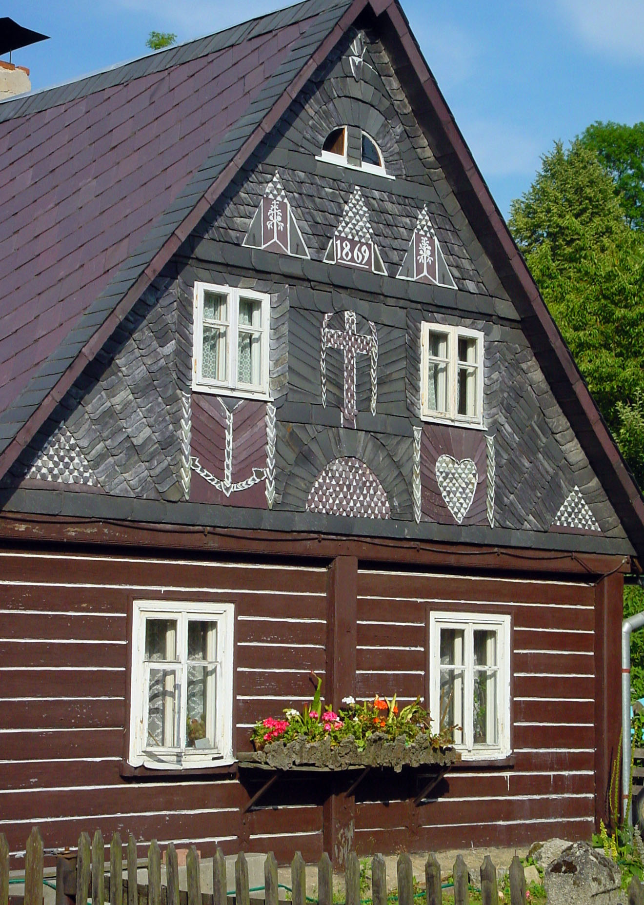 Slate-laid gable of a wooden house, Kryštofovo Údolí near Liberec, Czech Republic